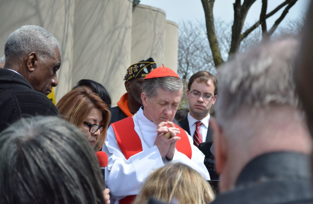 Cardinal Blase Cupich of the Roman Catholic Archdiocese of Chicago prays as names of homicide victims are read during a prayer walk through Chicago's Englewood neighborhood on the city's South Side, April 14, 2017.